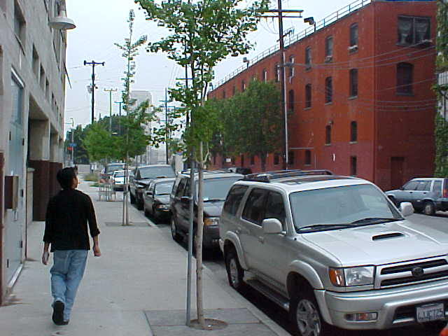 Street scene in the Arts District, eastern Downtown Los Angeles, California. Credits Photo taken by Bobak Ha'Eri, May 29, 2001. Please observe license and properly cite in use outside Wikipedia.